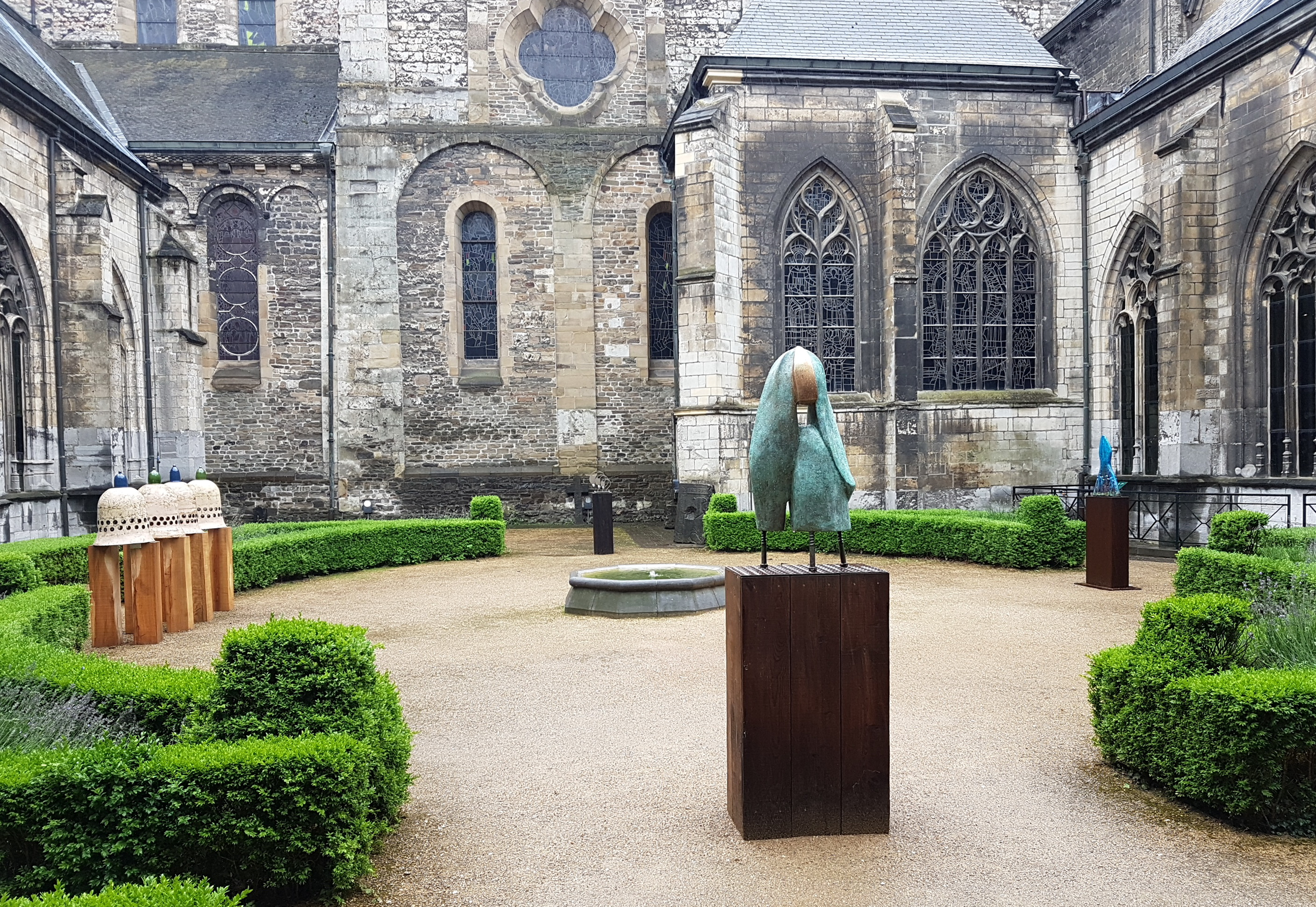 View of a temporary art exhibition in the cloister of the Basilica of Our Lady during the 2018 Heiligdomsvaart ("Relics Pilgrimage") in Maastricht, Netherlands. The history of this seven-yearly catholic pilgrimage goes back to the Middle Ages. The theme of the pilgrimage was "Do good and don't look back". Around 60 artists from the Euregion Meuse-Rhine were asked to send in work that had some bearing to this theme.